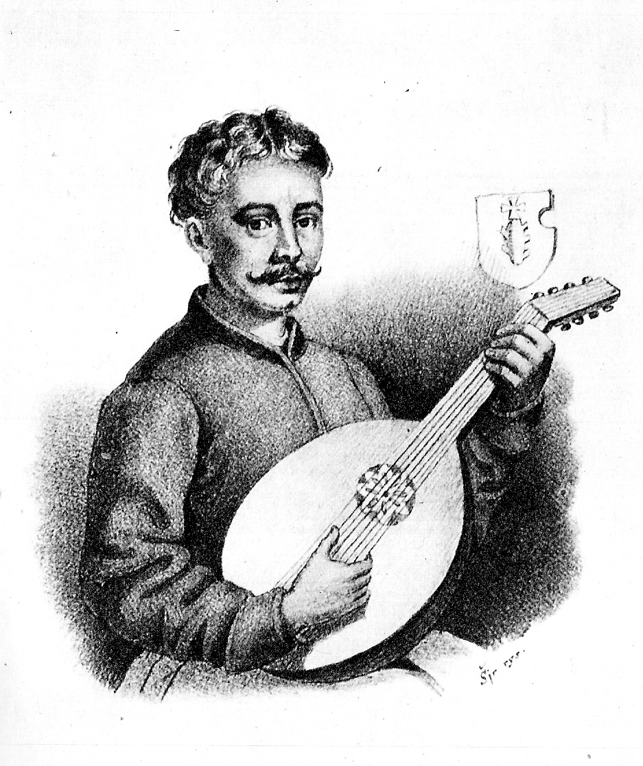 Wespazjan Kochowski (1633-1700), great Polish historian and poet.